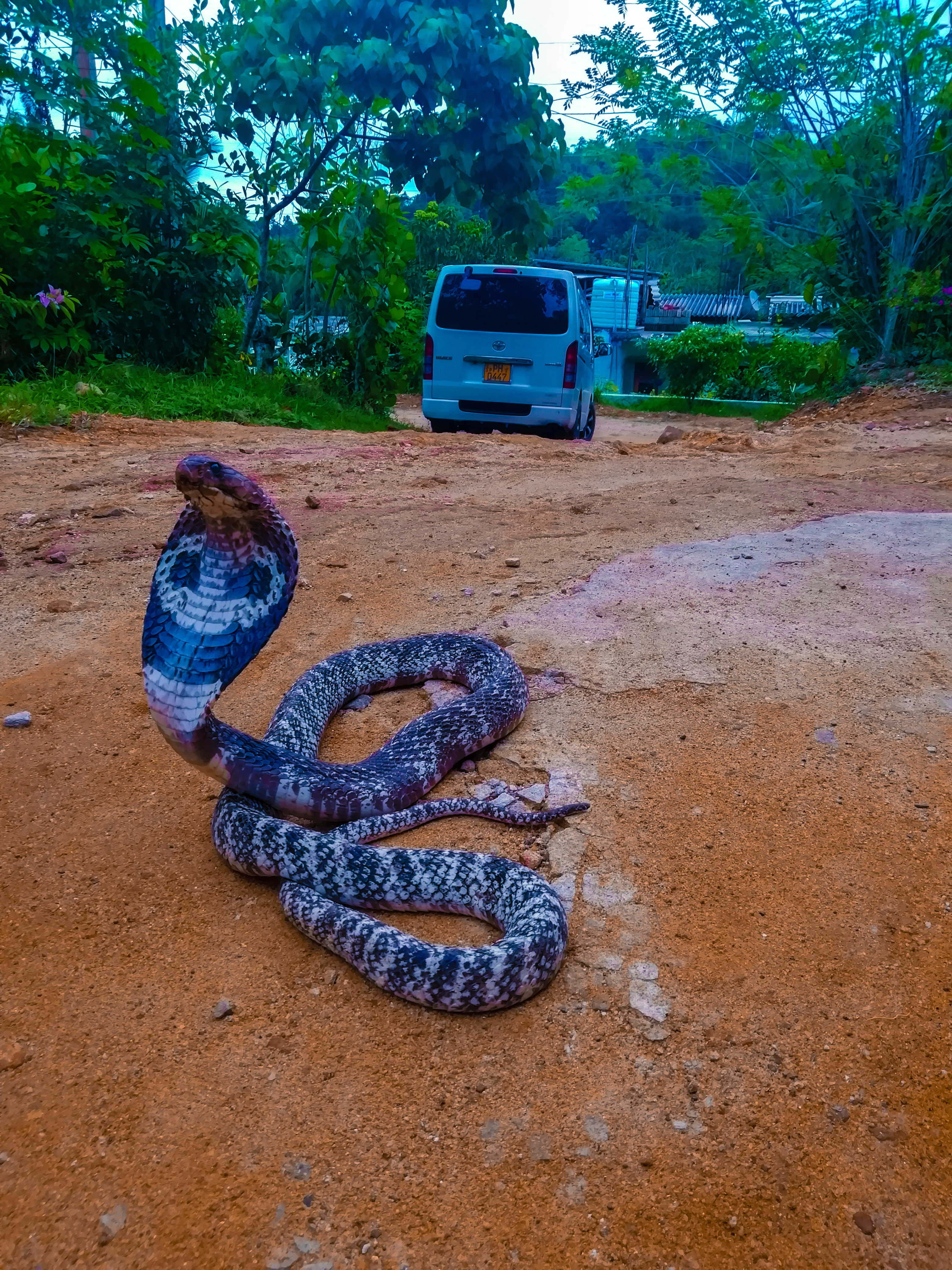 Cobra and snake house in weligama